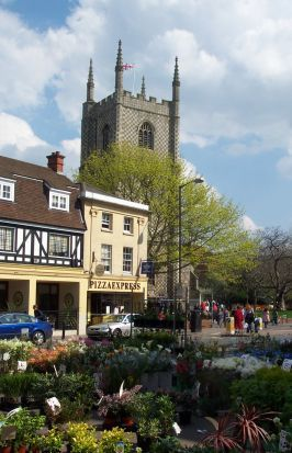 Reading St Marys Minster Church and Butts, with a plant stall of Reading Market in the foreground.